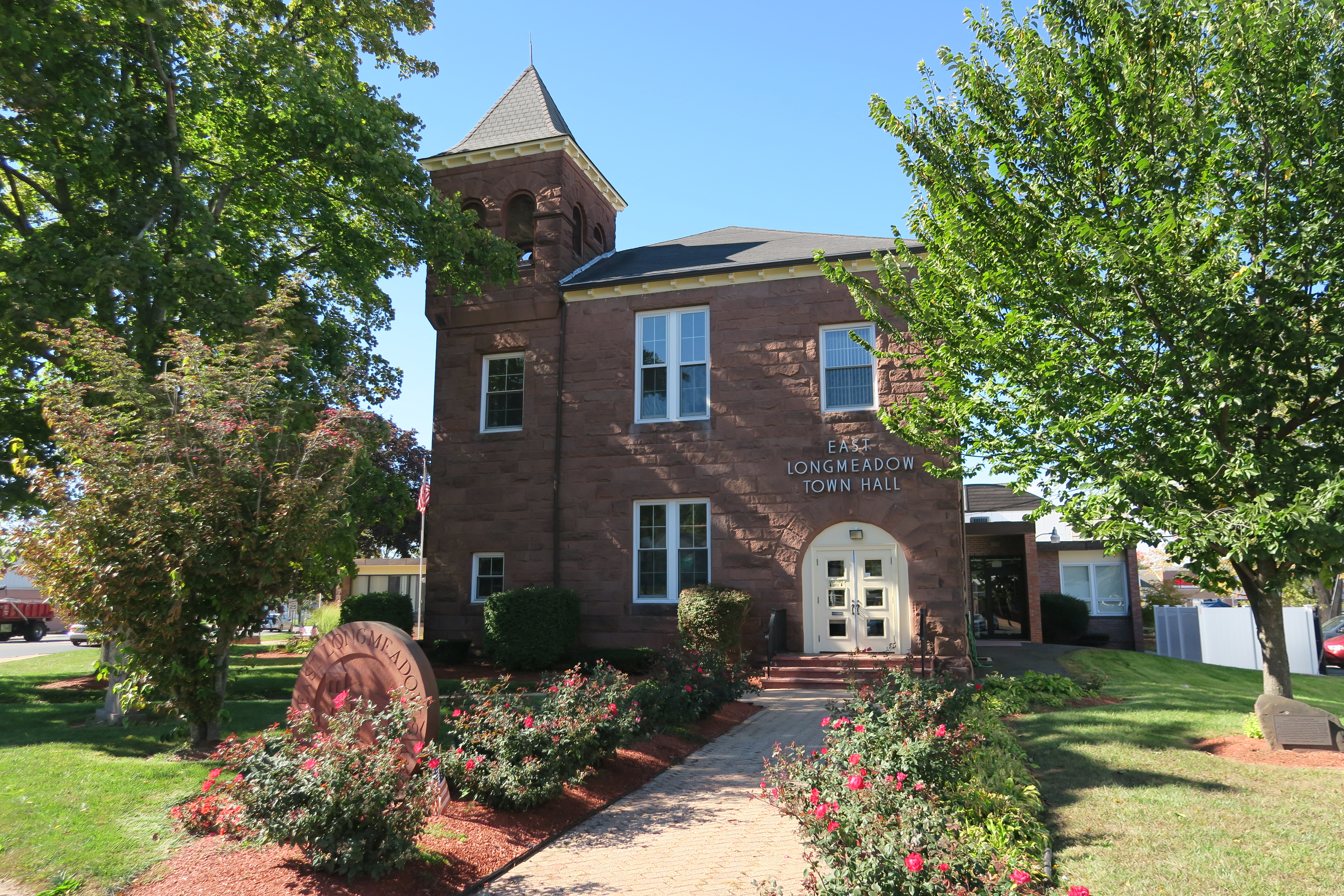 Town Hall, East Longmeadow Massachusetts